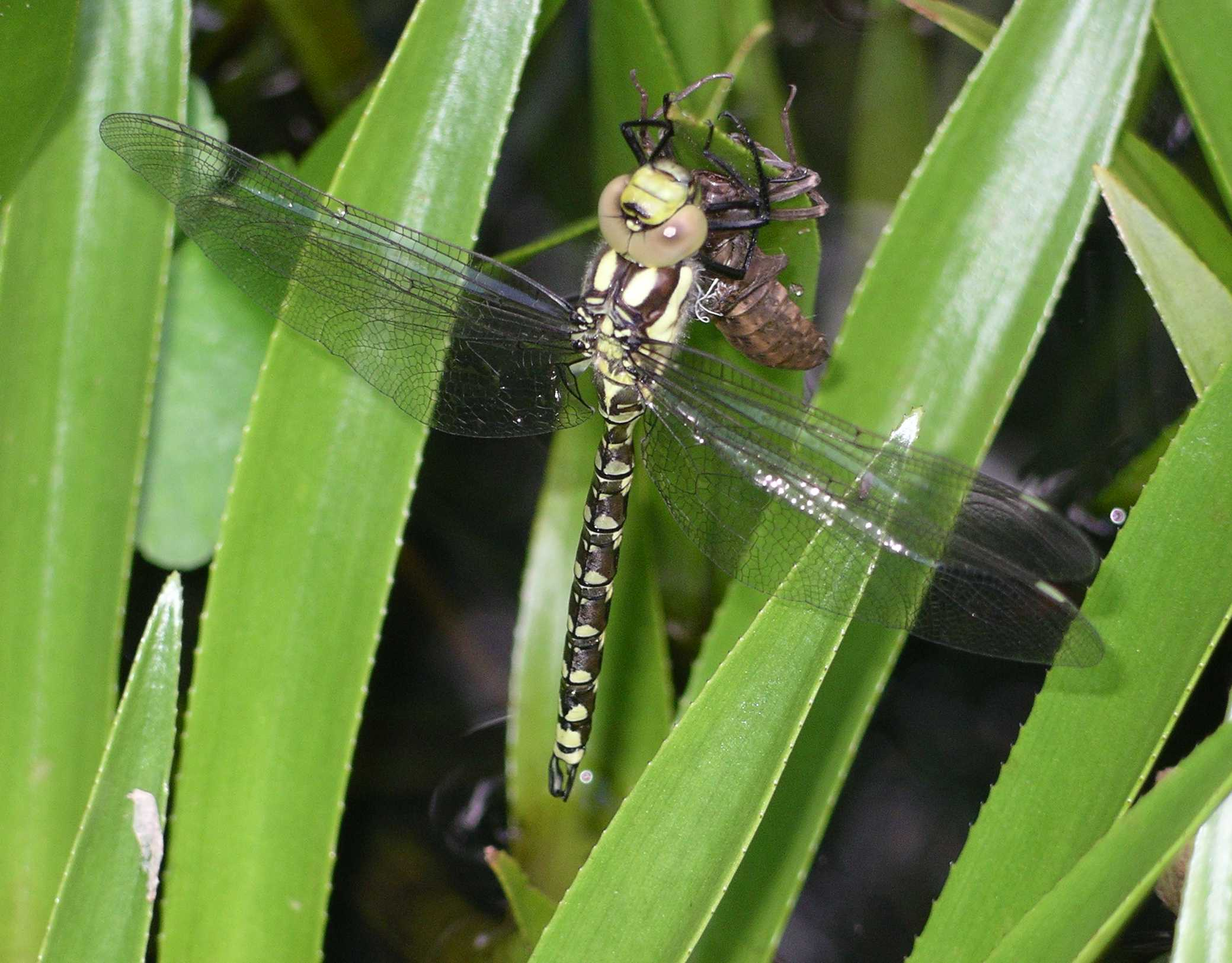 Aeshna cyanea, male, on emergence showing exuvium - both attached to leaves of Stratiotes aloides